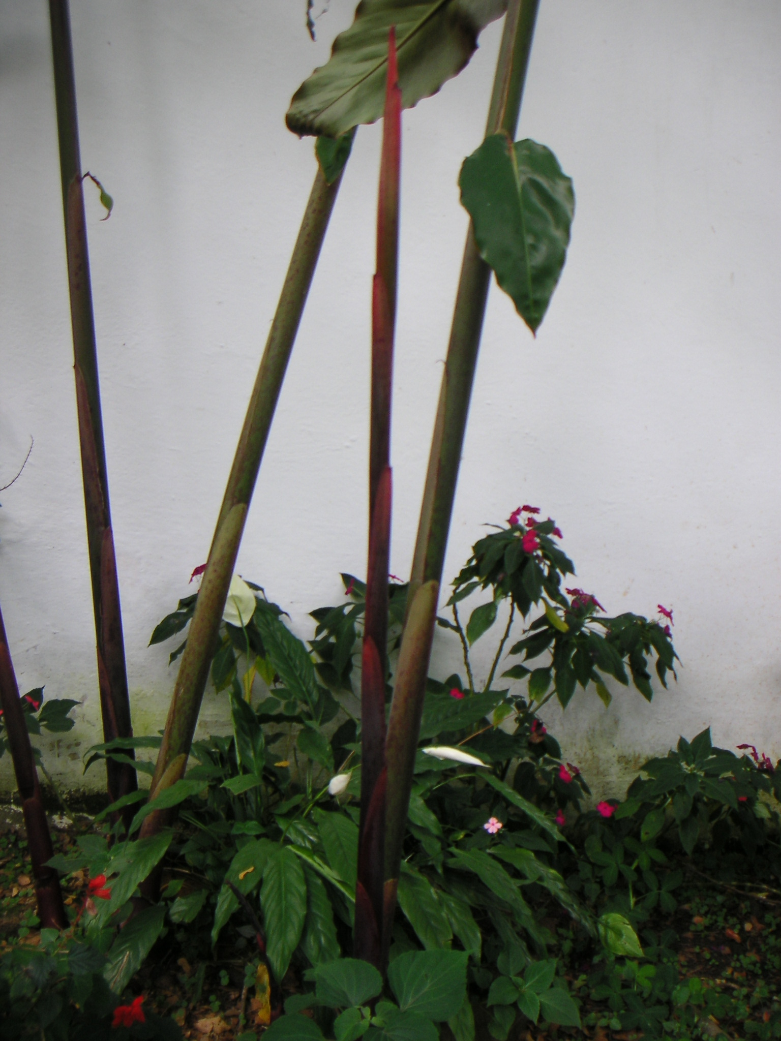 Etlingera elatior, Zingiberaceae, Cali / Kolumbien